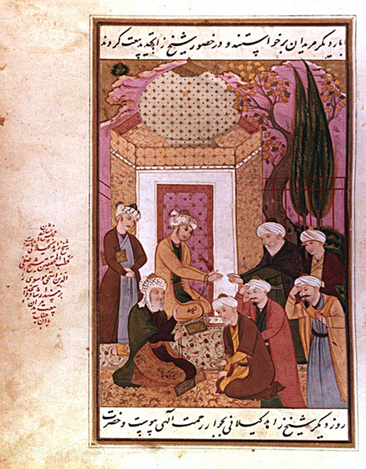 Sufi Grandmaster (Murshid Kamil) Sheikh ZAHED GILANI (1216 - 1301) designating his son in law and Eponym of the SAFAVID DYNASTY, Sheikh Safi-Eddin, as his spiritual Successor in 1301